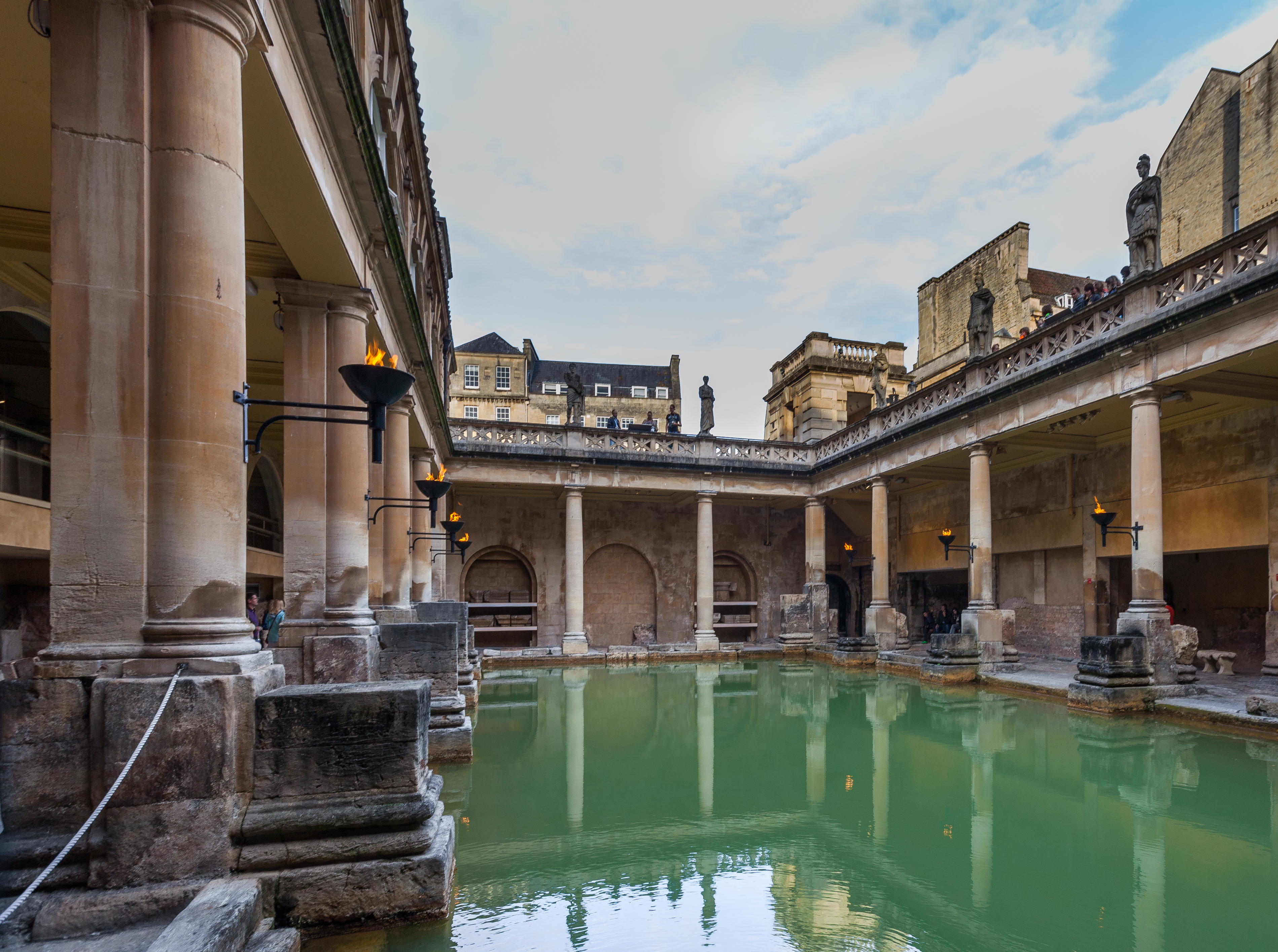 Roman Baths, Bath, England